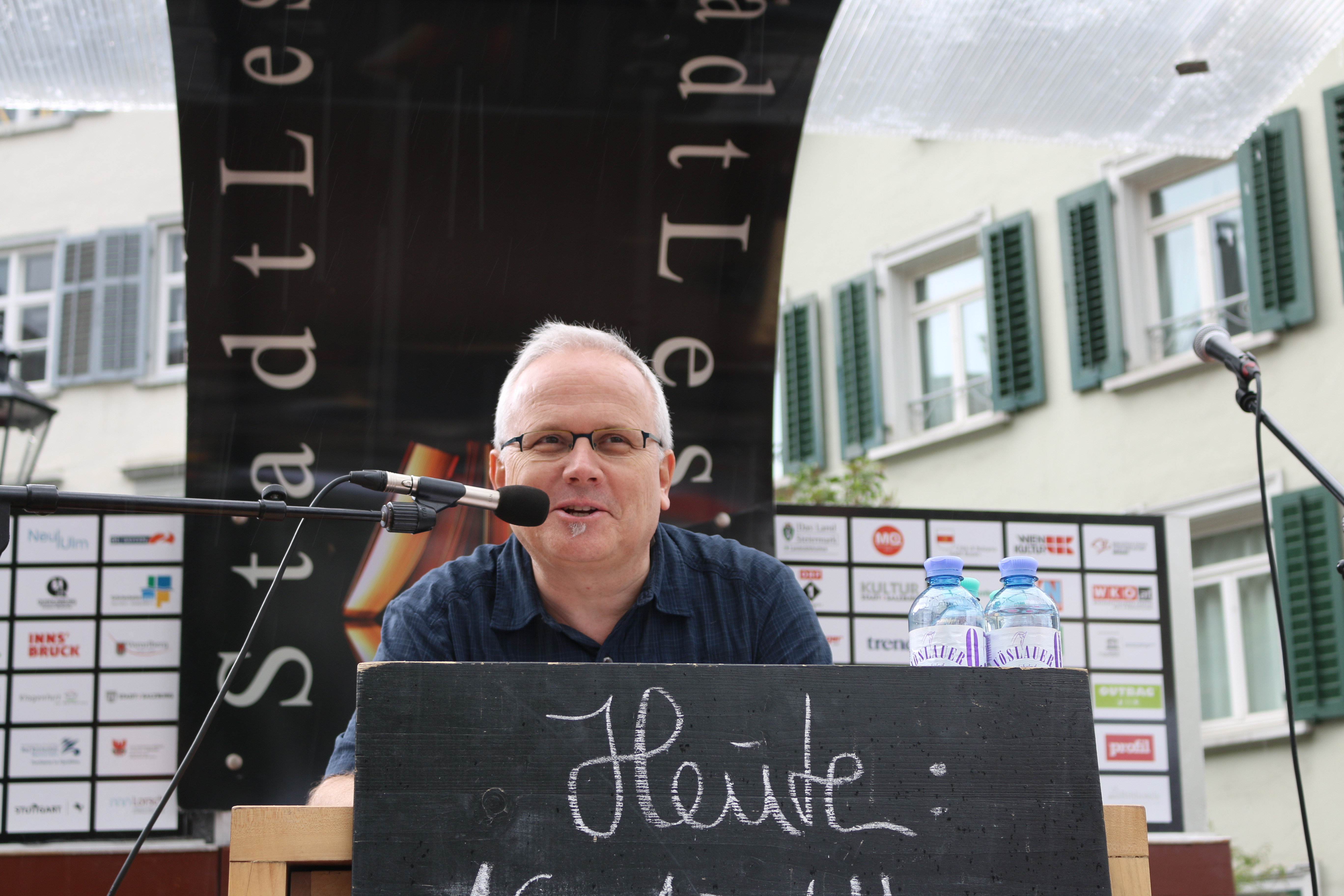 René Oberholzer (author)